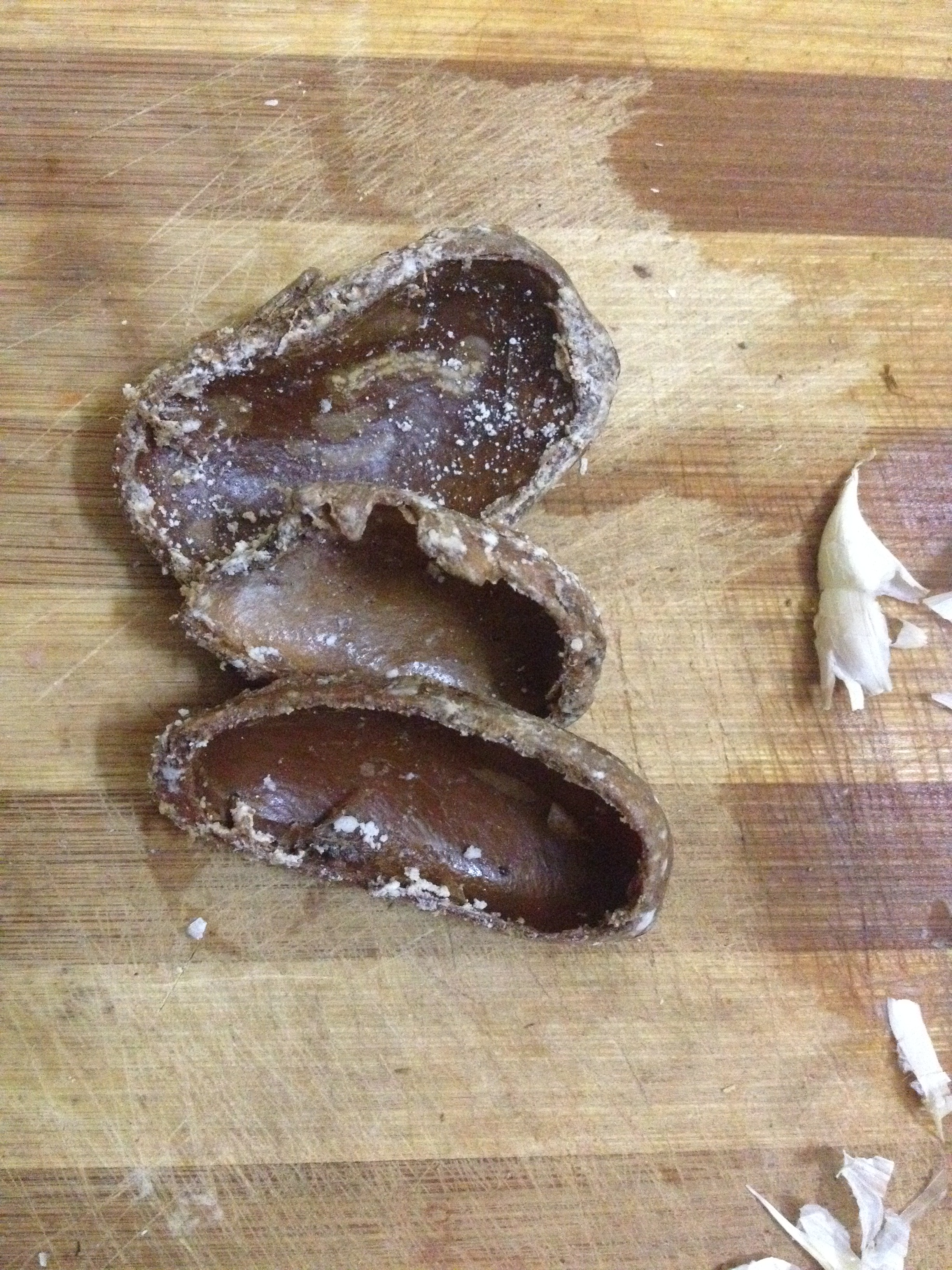 Ambula (Dry salted mango) is normally used to prepare various different Odia delicacies. Credit information: This work was created by Subhashish Panigrahi. You are free to use it for any purpose as long as you credit me properly. Contact me: If you are the subject of the picture and would like to schedule another shoot. If you're unsure about how you can use this picture. Reuse: If you use this image outside of Wikimedia projects, I would be happy to hear from you. If you use this image in a printed publication, I would love to get a copy for my archives.